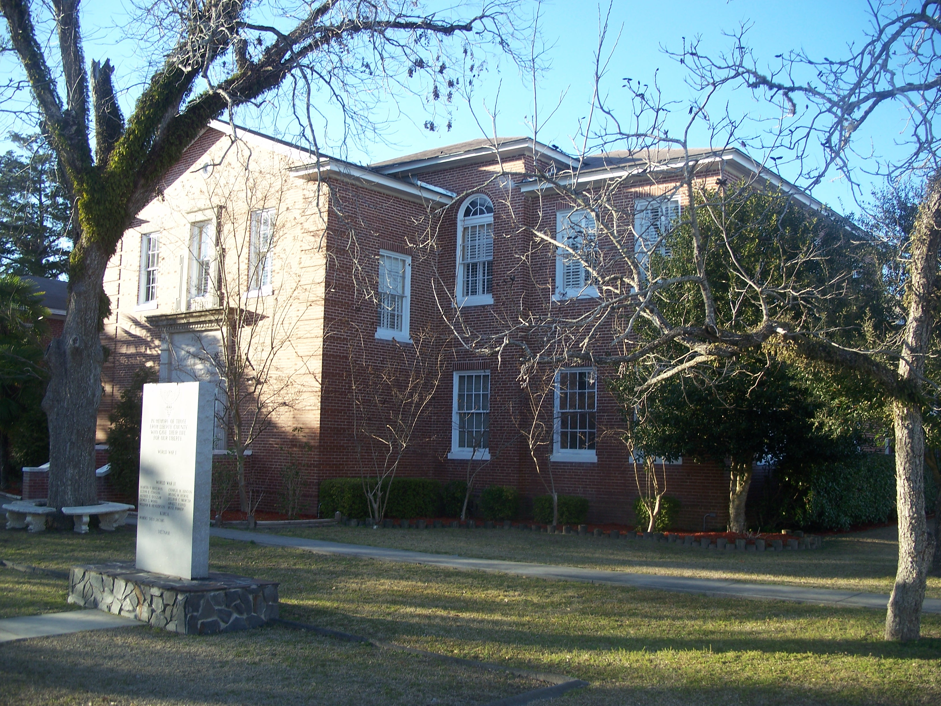 Bristol, Florida: County courthouse